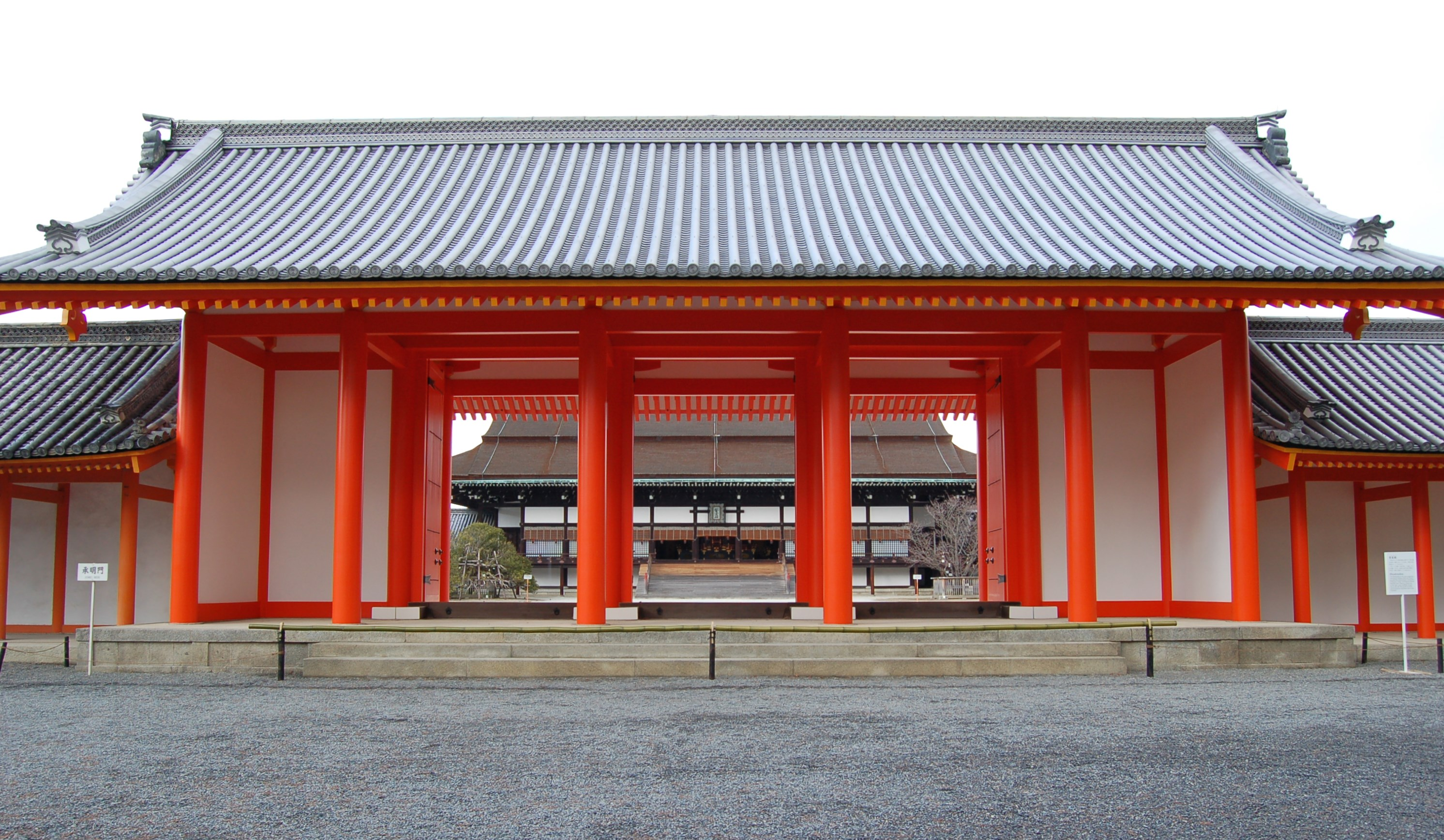 Picture of the imperial Palace in Kyoto on December 2005 This Picture was taken by Kim Rötzel